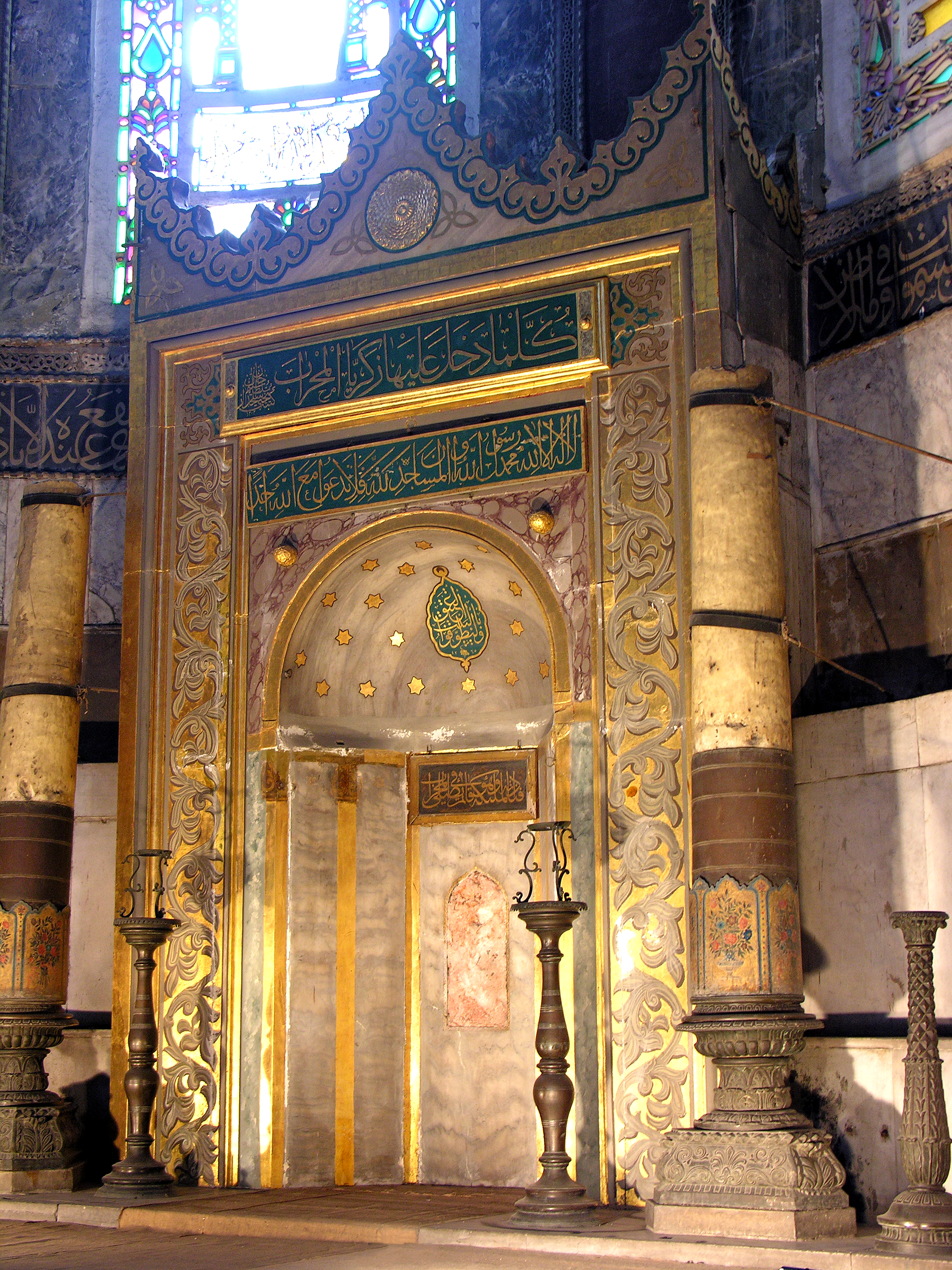 Turkey-3052